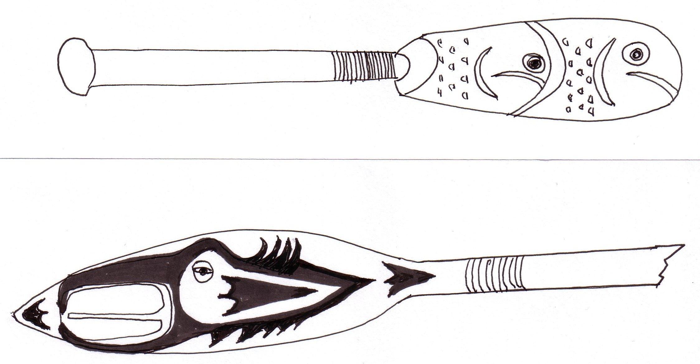 Sketch inspired by two richly decorated Kwakwaka'wakw cedar paddles (trying to show Amerindian culture enhances beauty even in customary tools) : a small river paddle (with upstream working salmons, eyes and scales made of inlaid abalone mother of pearl) - and a big sea paddle, with a shrieking Thunderbird head .